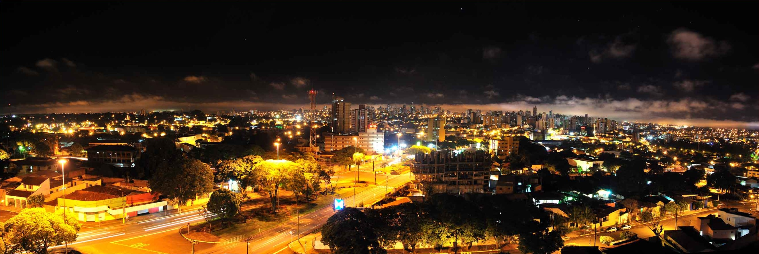 Campo Grande is a beautiful Capital of Mato grosso do sul state of brasil and this picture taken in early night